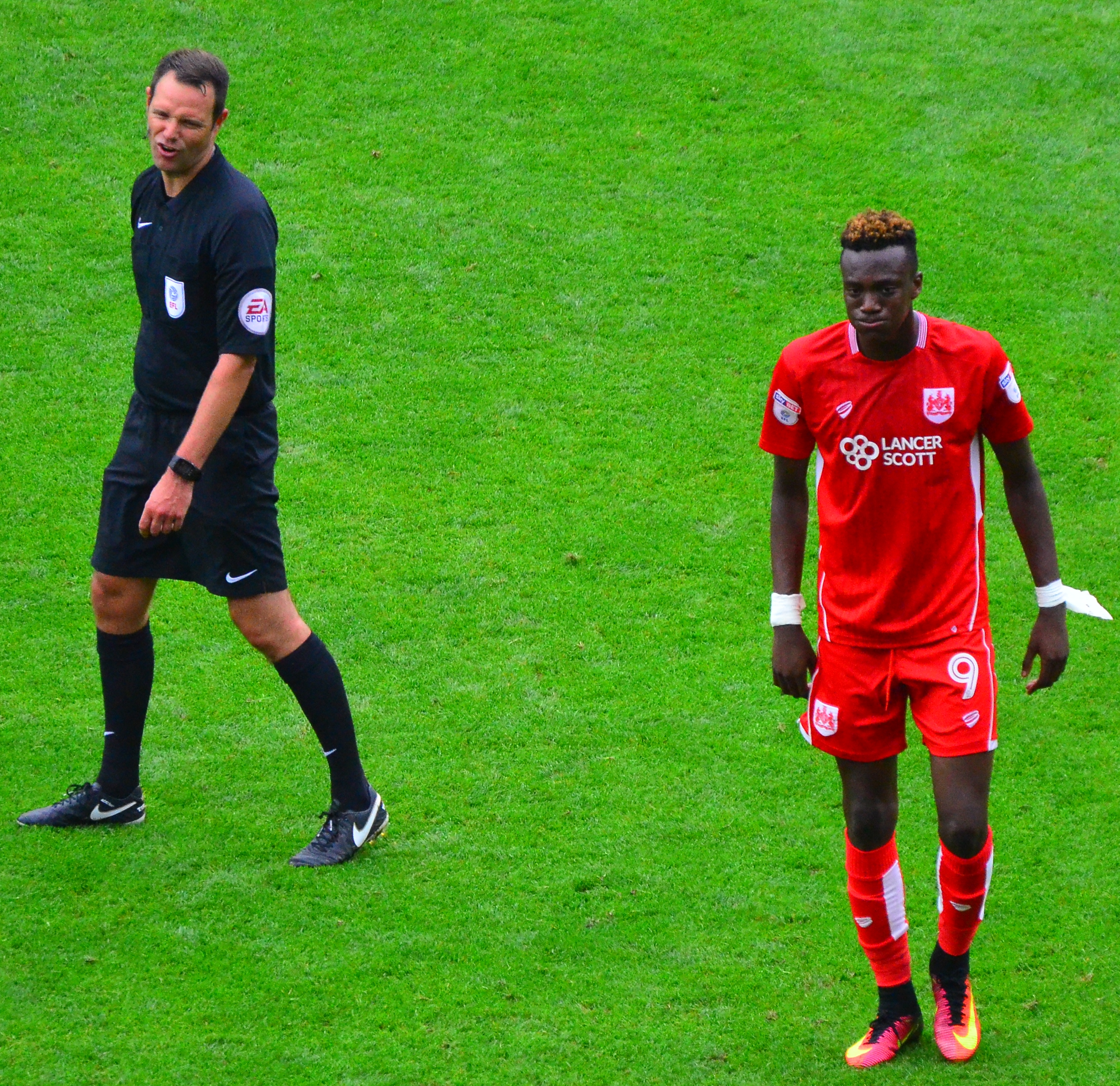 Referee James Linington feels Tammy Abraham's pain